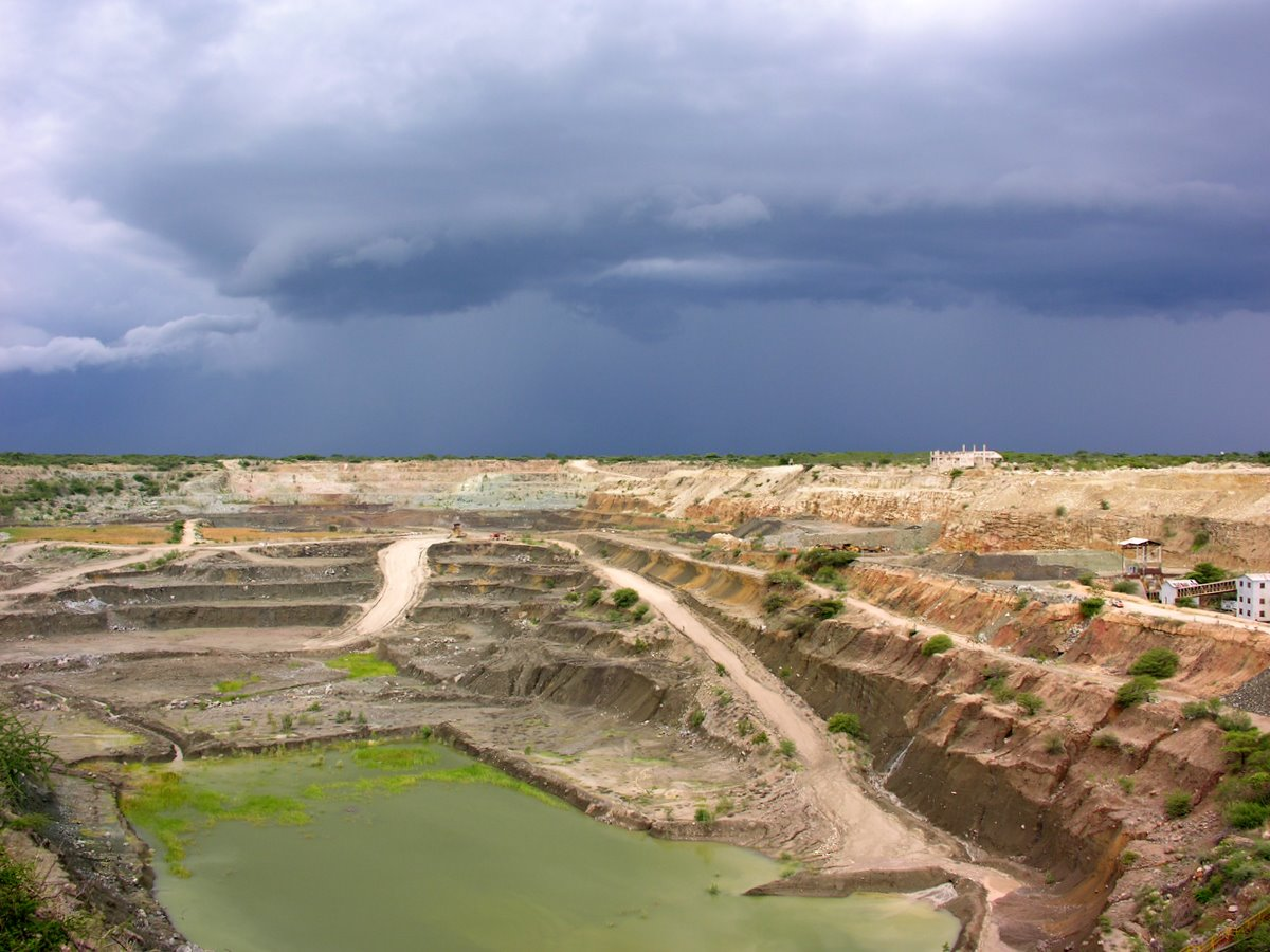 Williamson Diamond Mine in Mwadui, Tanzania